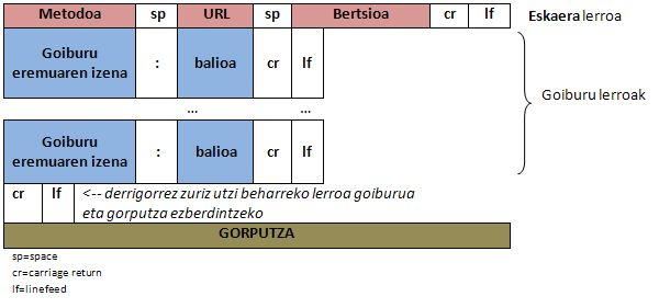 the HTTP request message format